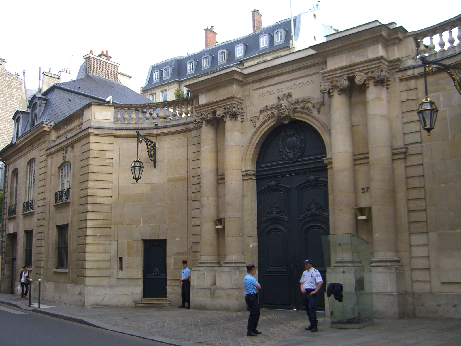 The photo of the main gate to the Hotel de Matignon in Paris, rue de Varenne, 75007, made by Sergey Zhirnoff, a former soviet spy